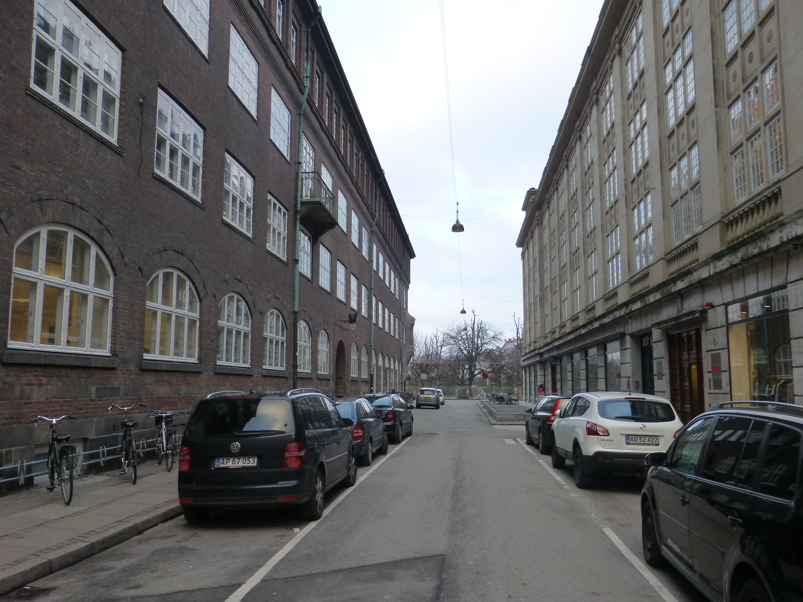 The street Sjæleboderne in Indre By in Copenhagen.